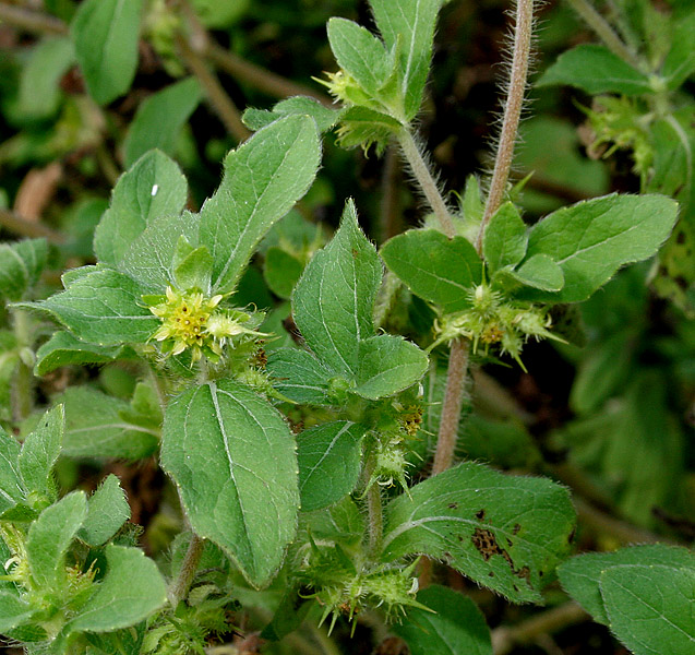 Acanthospermum hispidum- Bristly Starbur, goat's head, goathead, hispid starburr, starburr, Texas cockspur • Marathi: Landga • Telugu: Palleru • Kannada: kadle mullu • Oriya: Kantagokhru- in Goa, India.